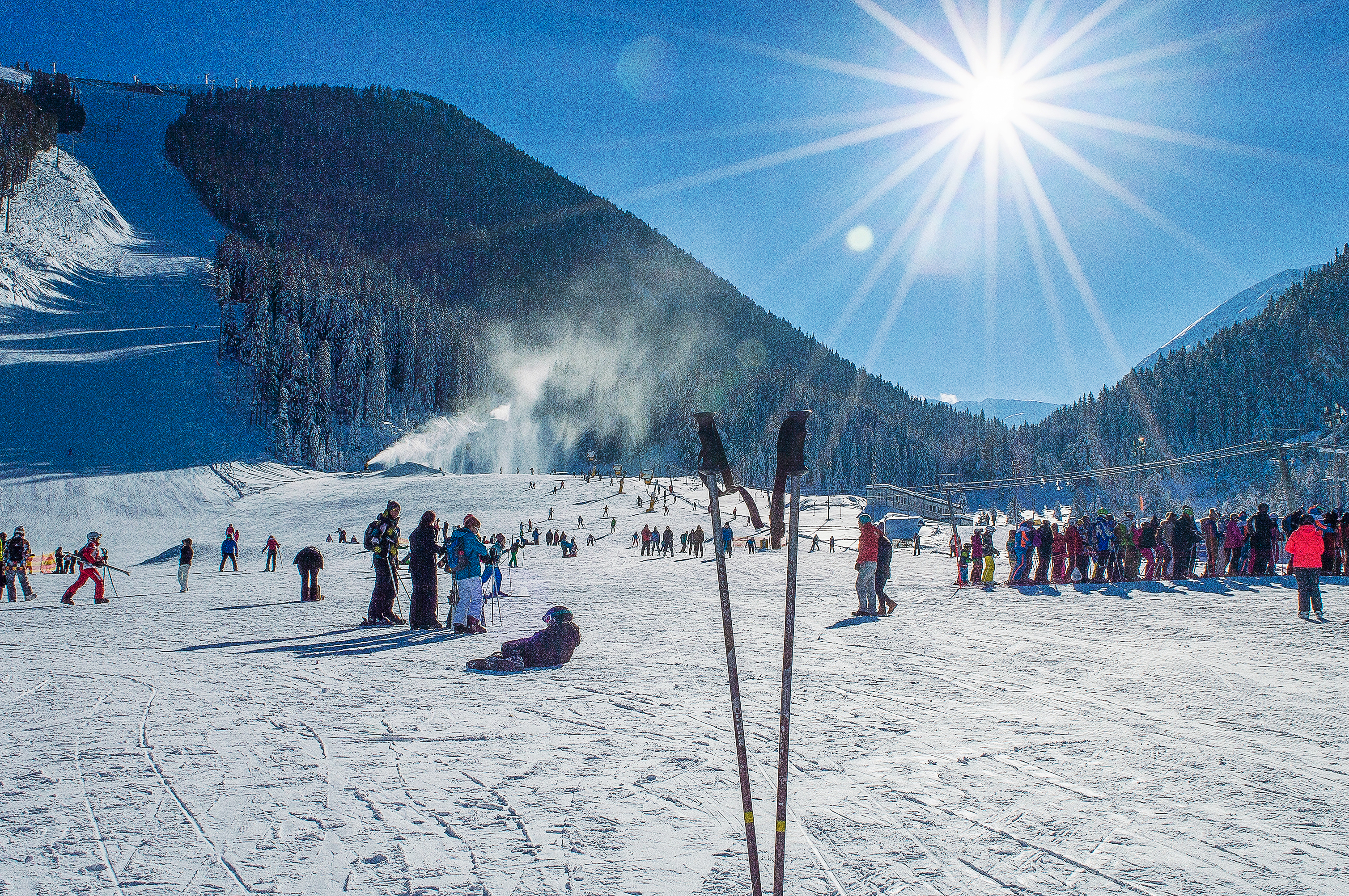 Banderishka meadow is an area in Pirin mountain near Bansko. We would be grateful if you give a link to our site - ©Balcon del Mundo photo gallery